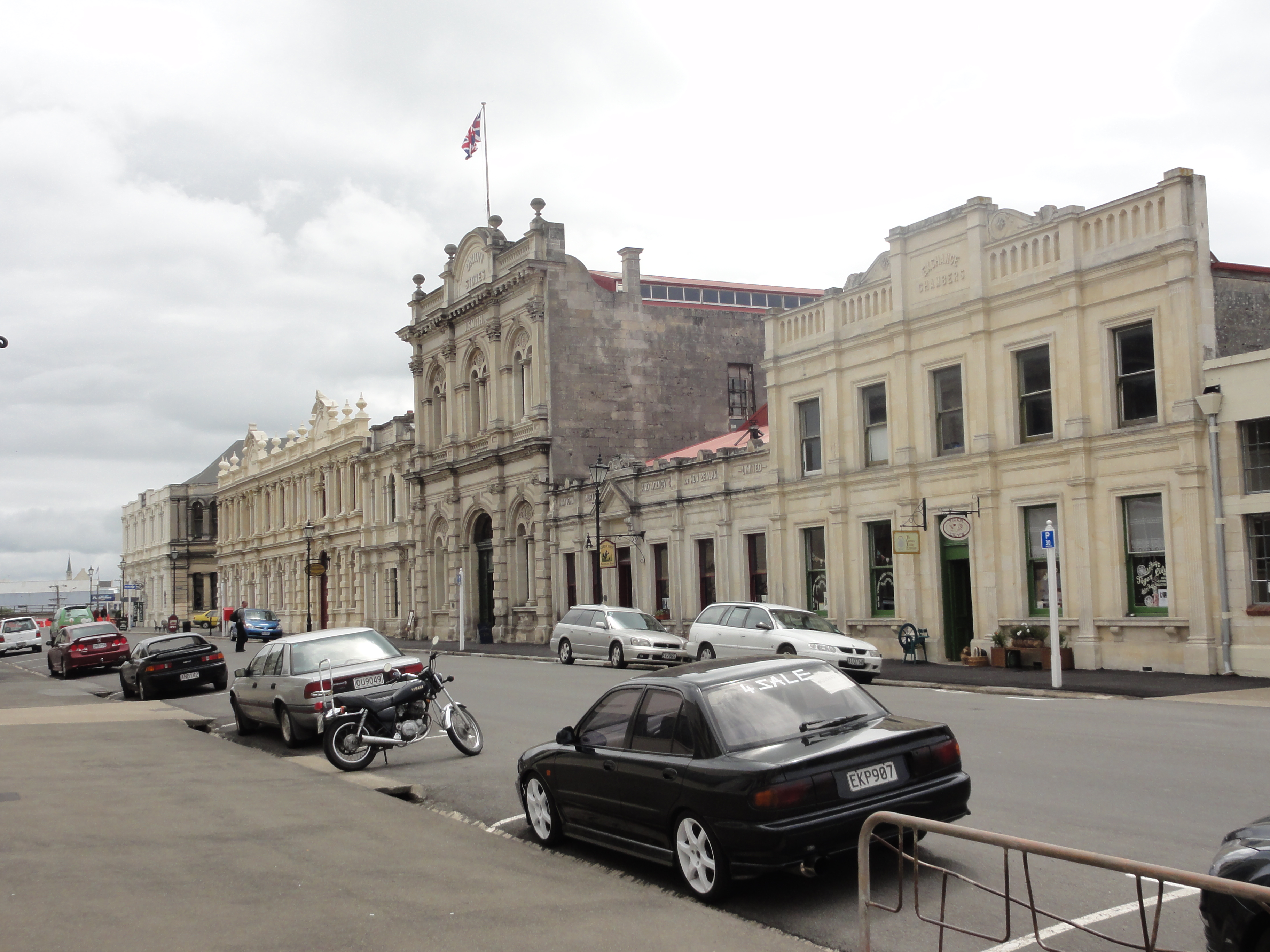 Tyne Street, Oamaru, NZ, no. 13 (right) to 1 (left)